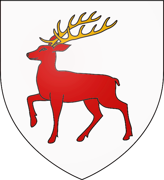 Coat of arms of the MacCarthy Clan who were Kings of Desmond and in earlier centuries Kings of Munster.